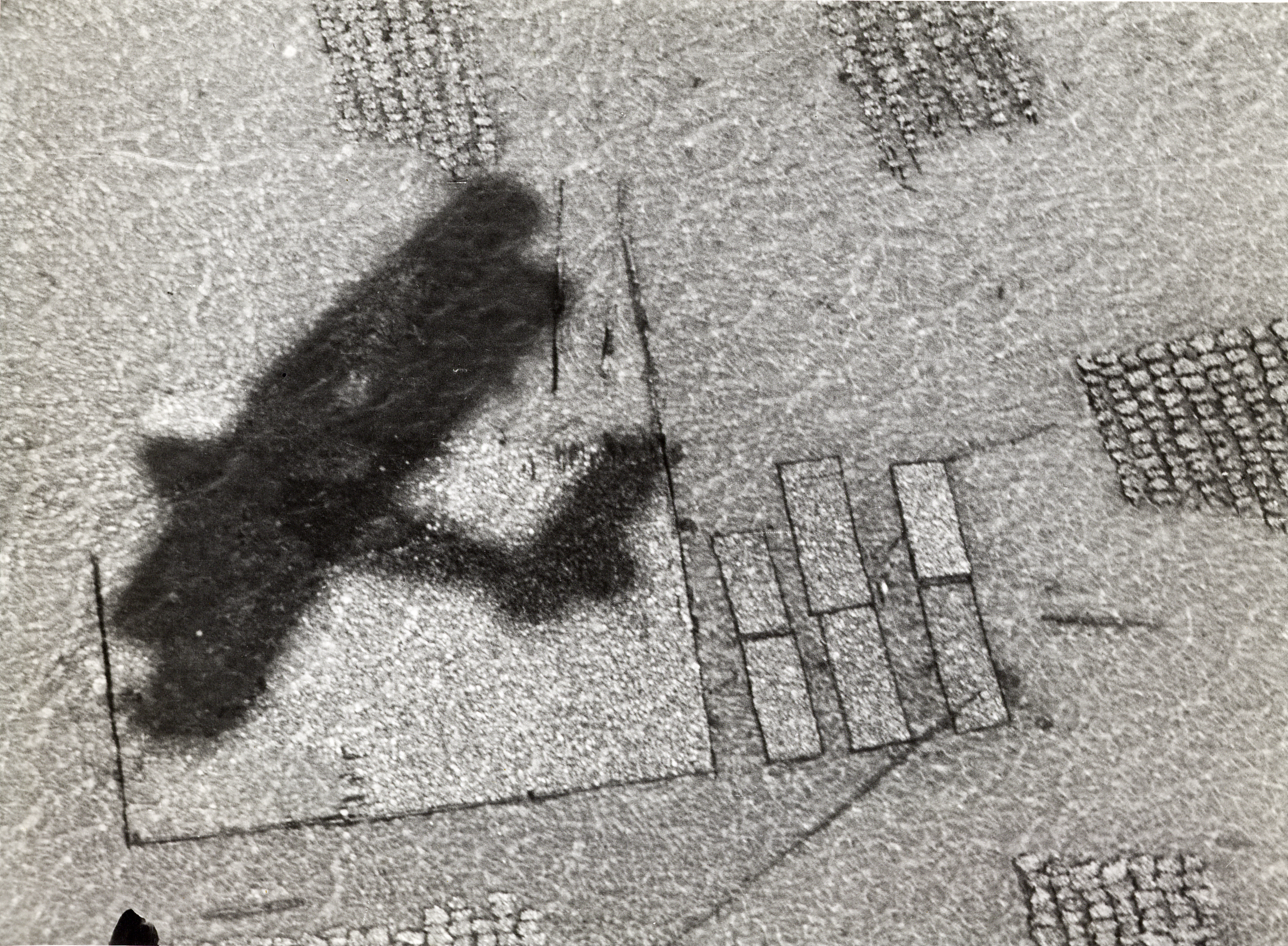 View from aeroplane (RAAF Supermarine Seagull V, A2-9) of man-made Oyster beds in Narooma, New South Wales. Photograph dated September 18, 1939.